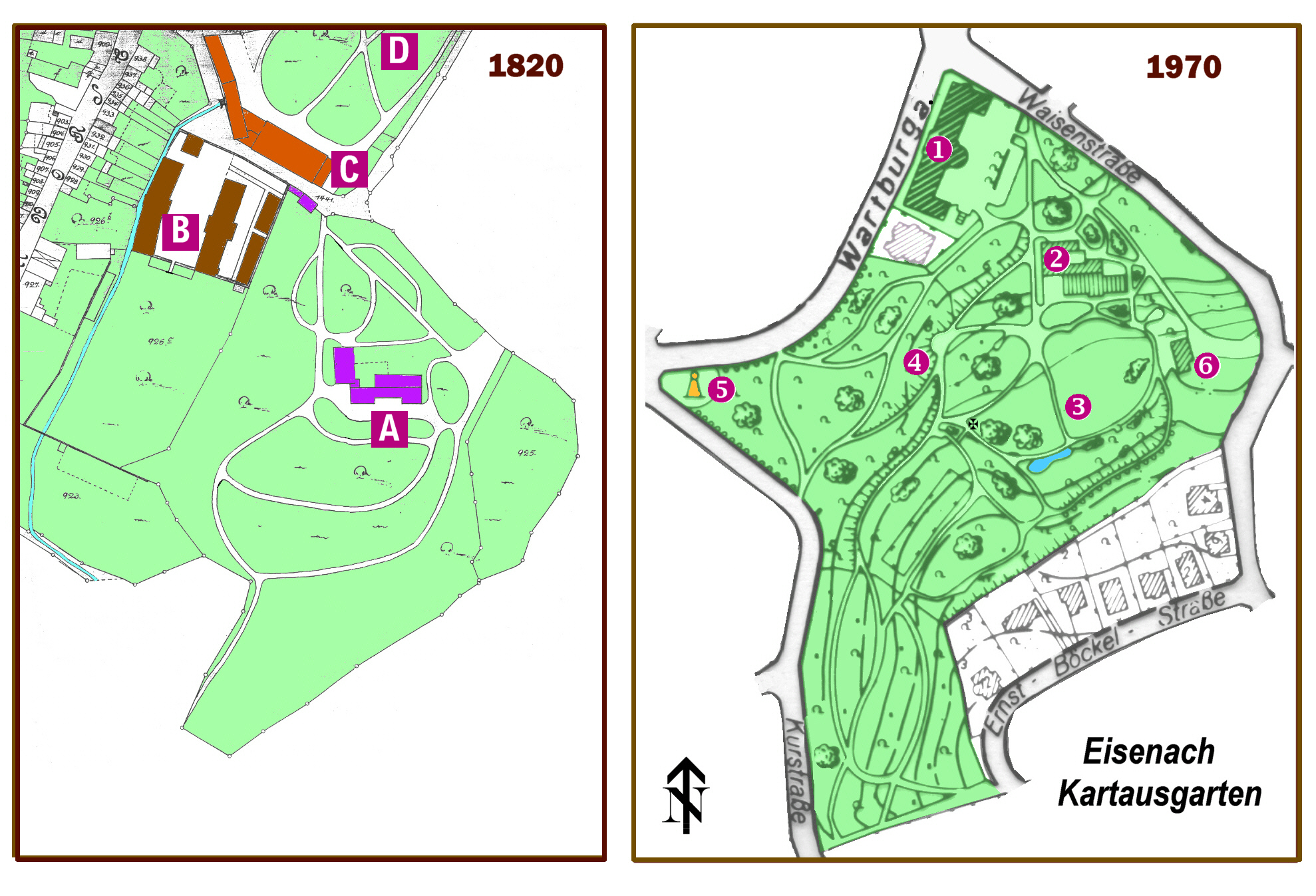 Map of the Kartausgarten park in Eisenach.